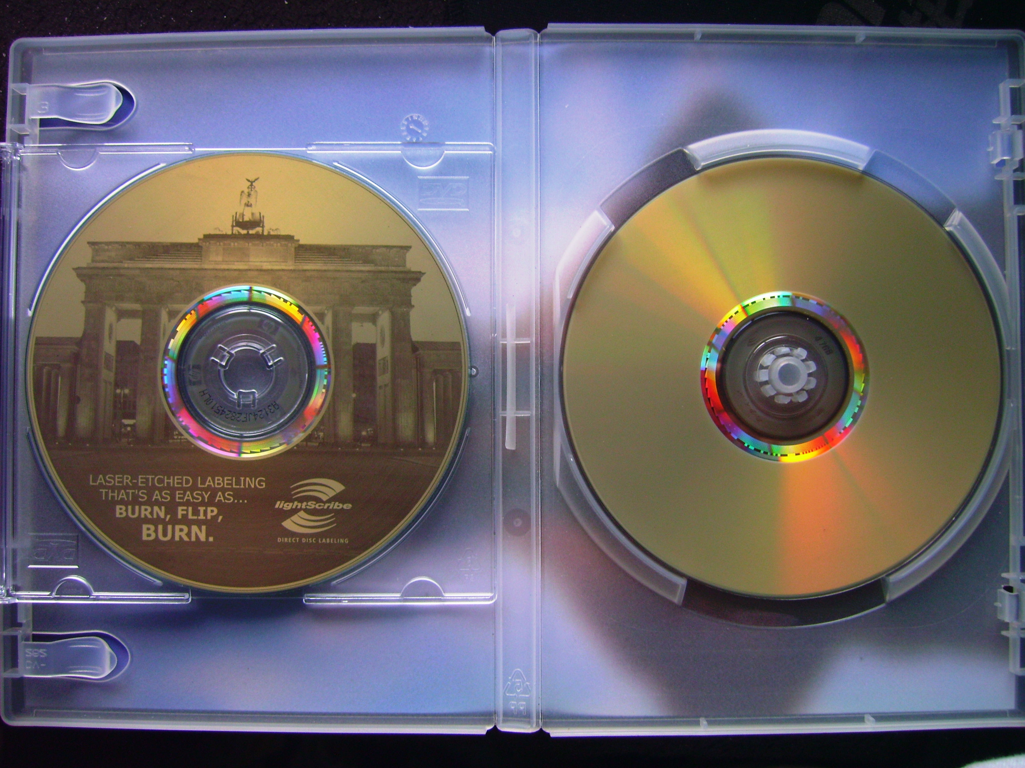 Differences between finished (left) and newly (right} LightScribe Discs.